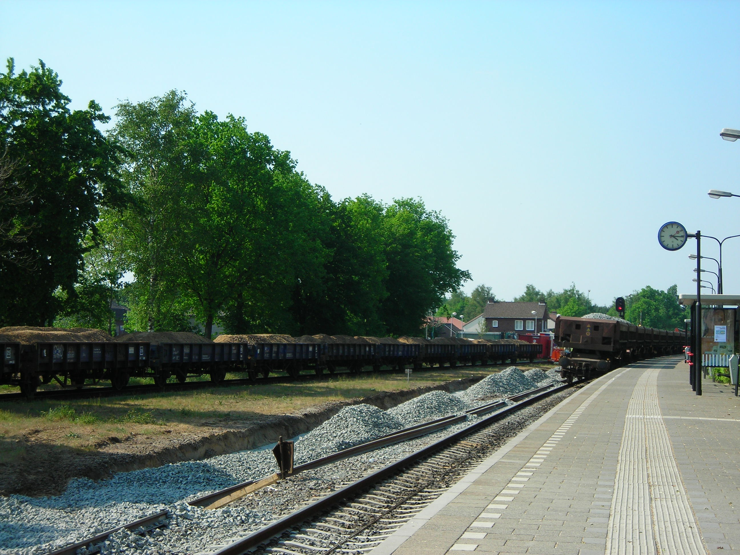 New track ballast is laid in Boxmeer, The Netherlands